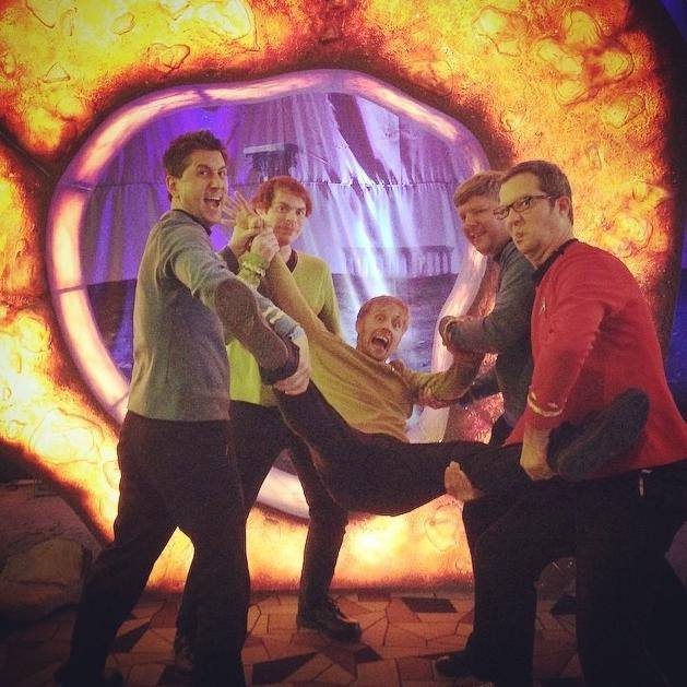 Five Year Mission tosses a member into the Guardian Of Forever at Star Trek Las Vegas 2014. (L to R: Band members Chris Spurgin, Patrick O'Connor, Noah Butler, Mike Rittenhouse, Andy Fark)